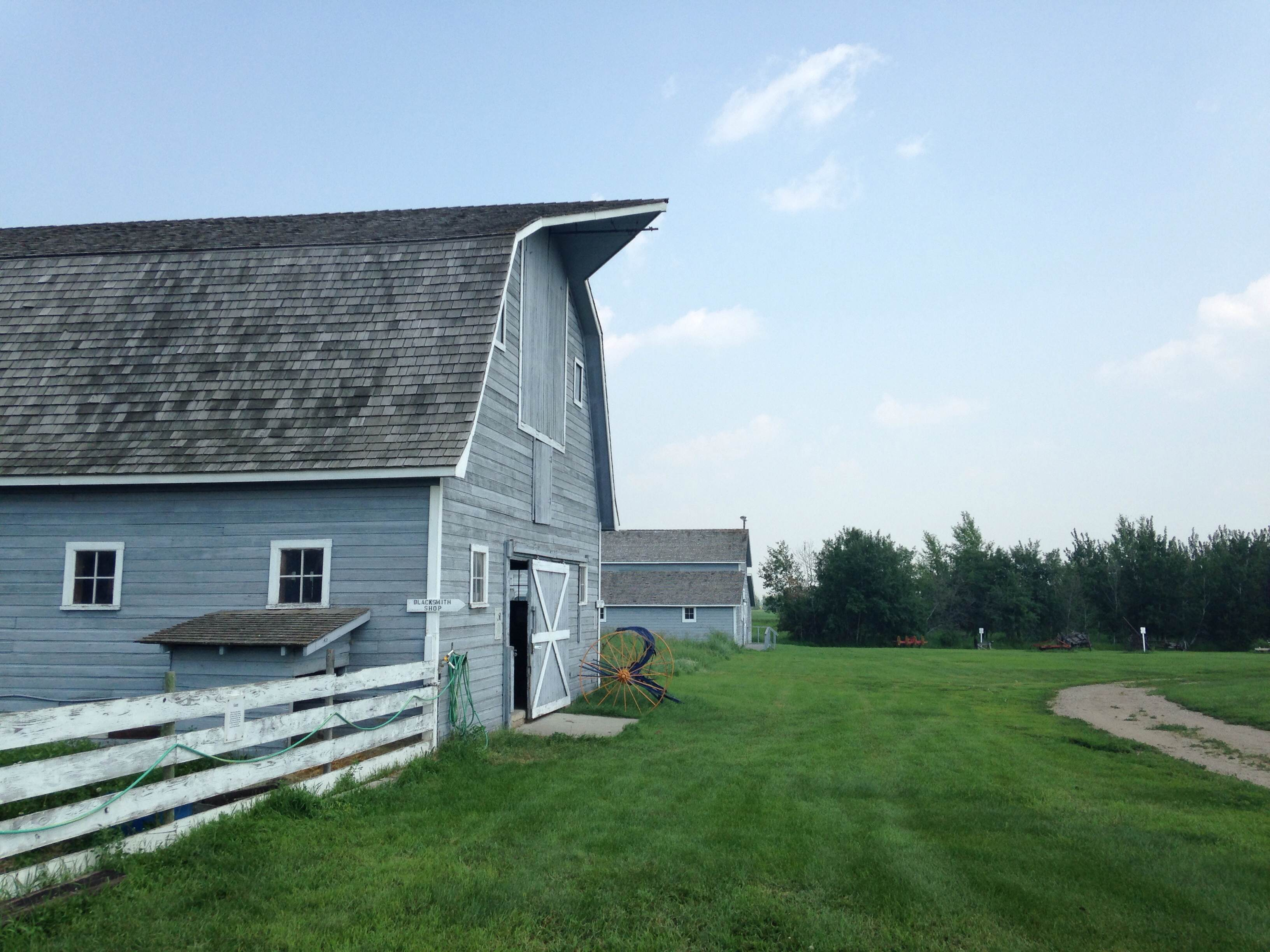 Seager Wheeler National Historic Site (Seager Wheeler's Maple Grove Farm), near Highway 312, Rural Municipality of Rosthern No. 403, Saskatchewan, Canada. Barn, built 1928, in foreground; seed cleaning plant, built 1918, in background.